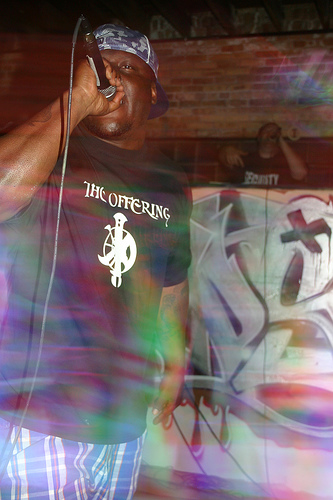 Killah Priest performing in Chicago.